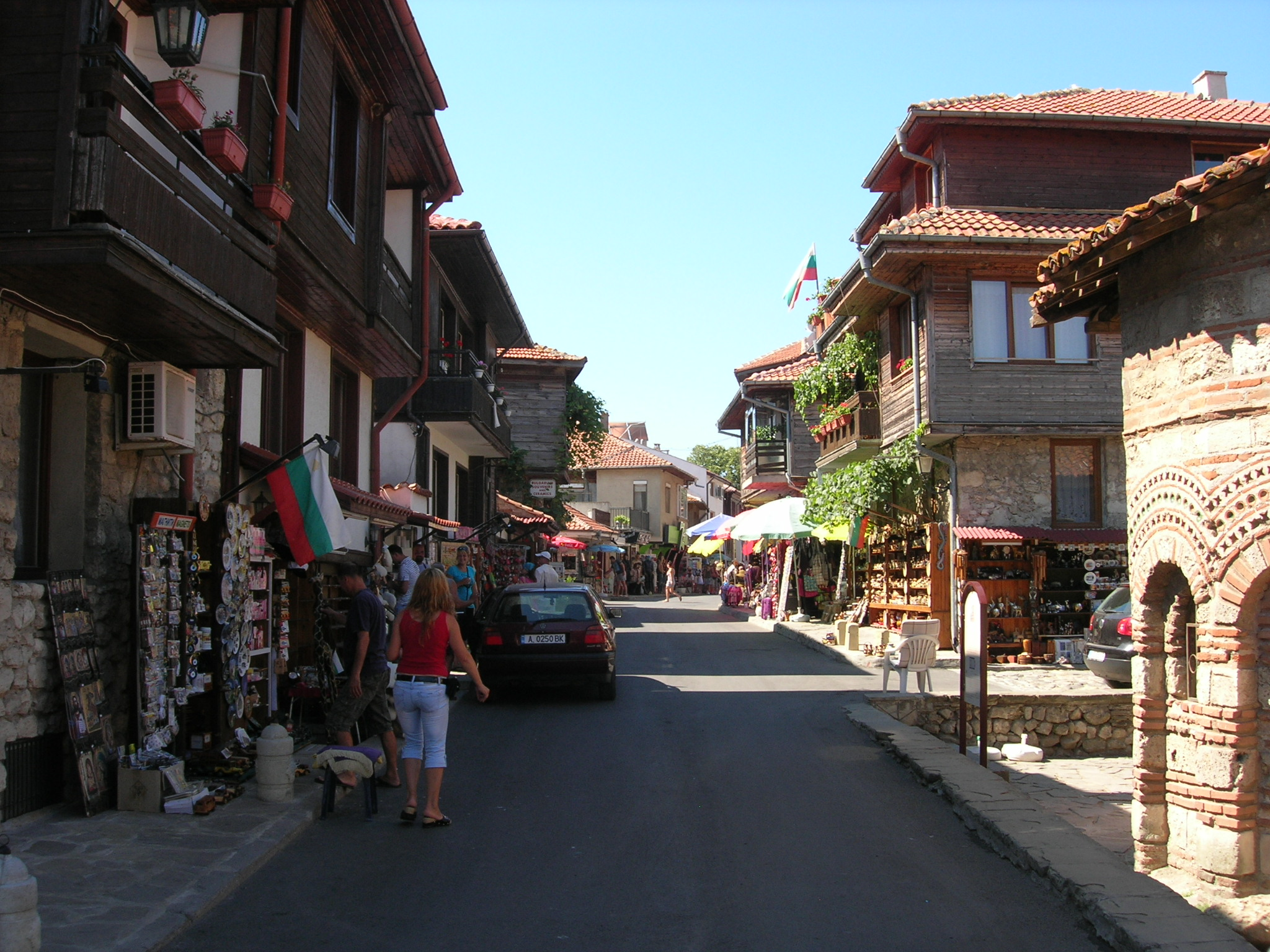 Street of old Nessebar